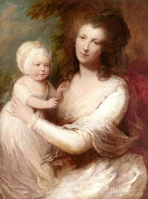 Mrs. James Baillie, and her youngest daughter Colin-Campbell Baillie, by Gainsborough Dupont, after his uncle's original of c1784. It measures 36.5 x 28 inches, and has been in the Collections of Donaldson (Sir George Hunter Donaldson, Kt. (1845-1925)), Durand-Ruel and Mrs Charles H. Senff, aka Gustavia A. Tapscott, of Richmond, Virginia.